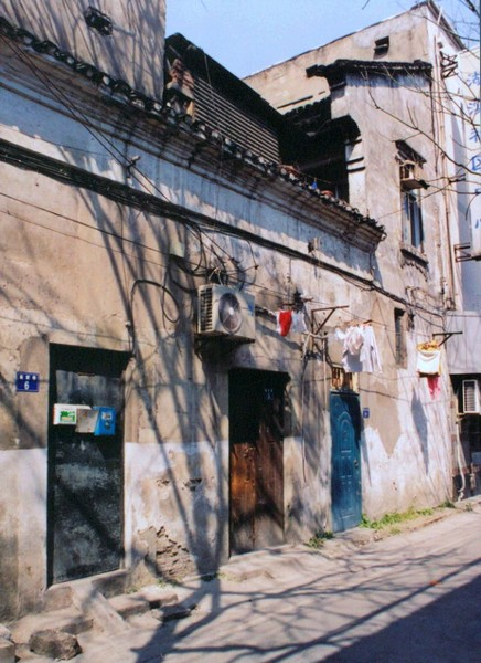 Historic Residence at 5, Cuijia Alley — Hangzhou (Shanghai). A protected Hang Zhou historic house — in Hangzhou (city) (former Shanghai), of Eastern China. Constructed between 1911 and 1949, it is a civilian residence in timber structure with slope roof. It consists of two halls.